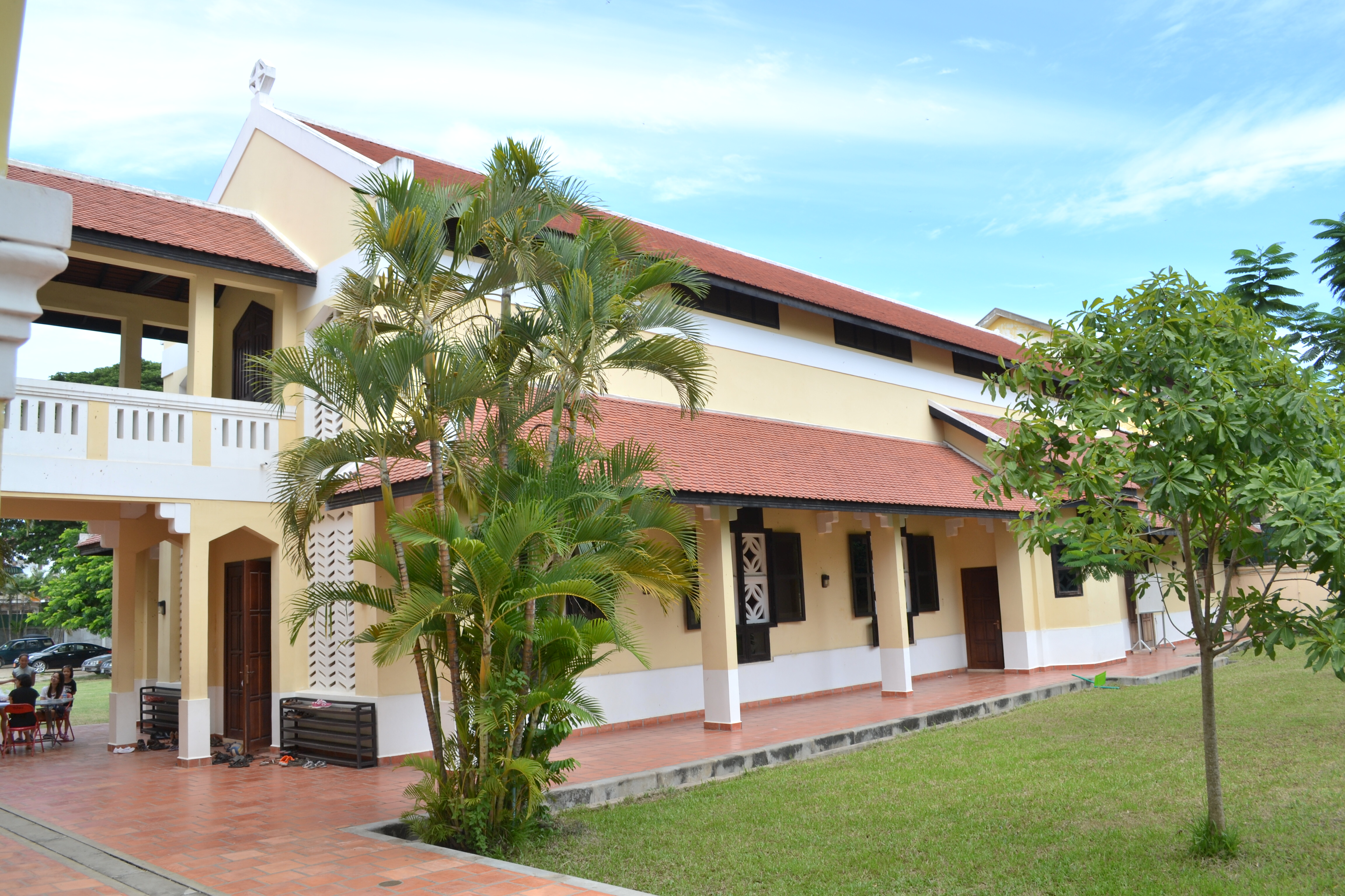 the inside chapel